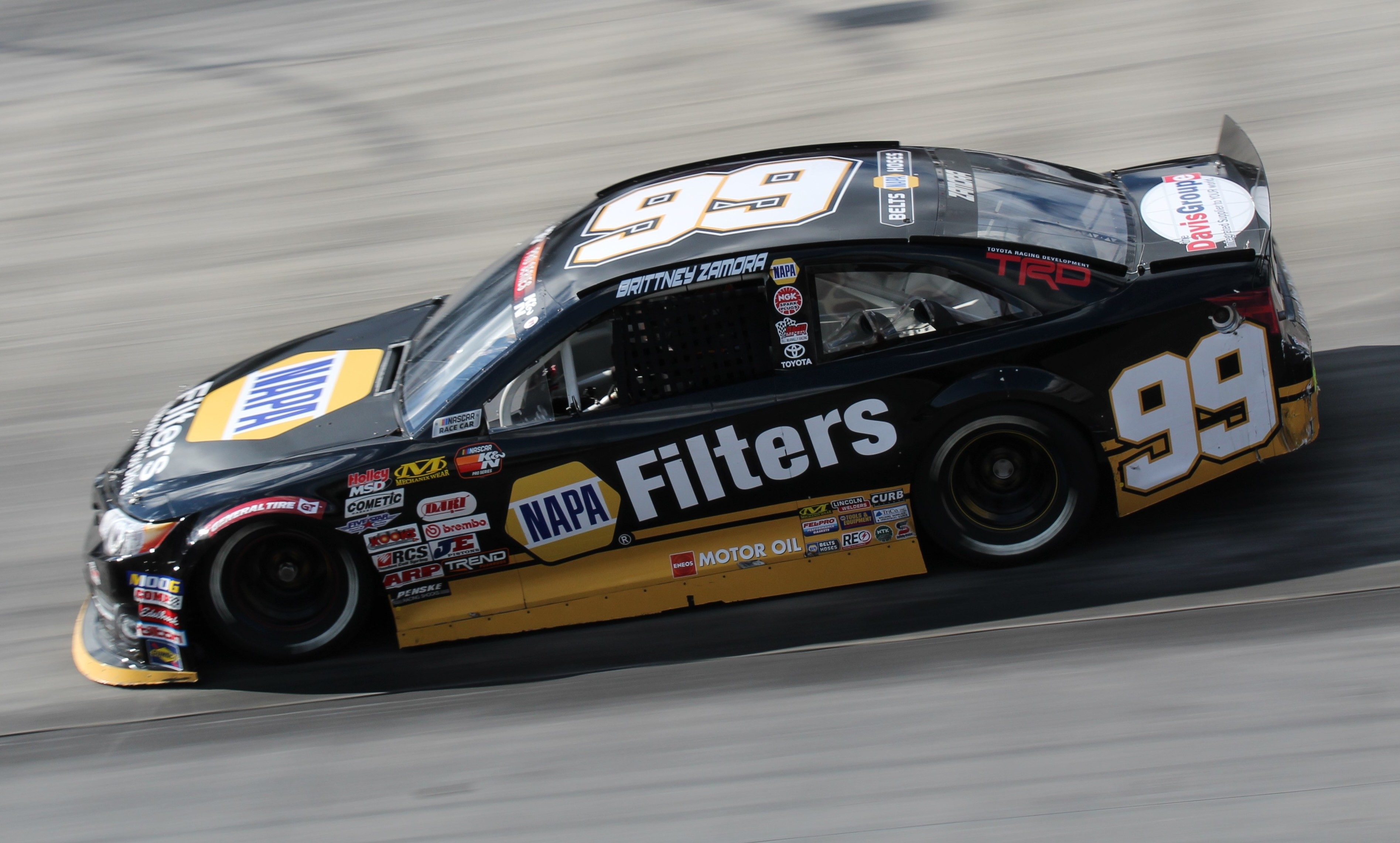 2019 Food City 500